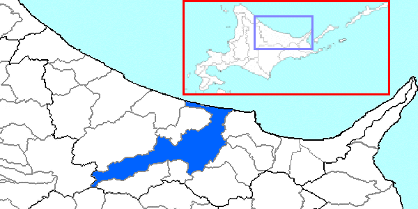 The location of Kitami in Okhotsk Subprefecture, Hokkaido Prefecture, Japan.